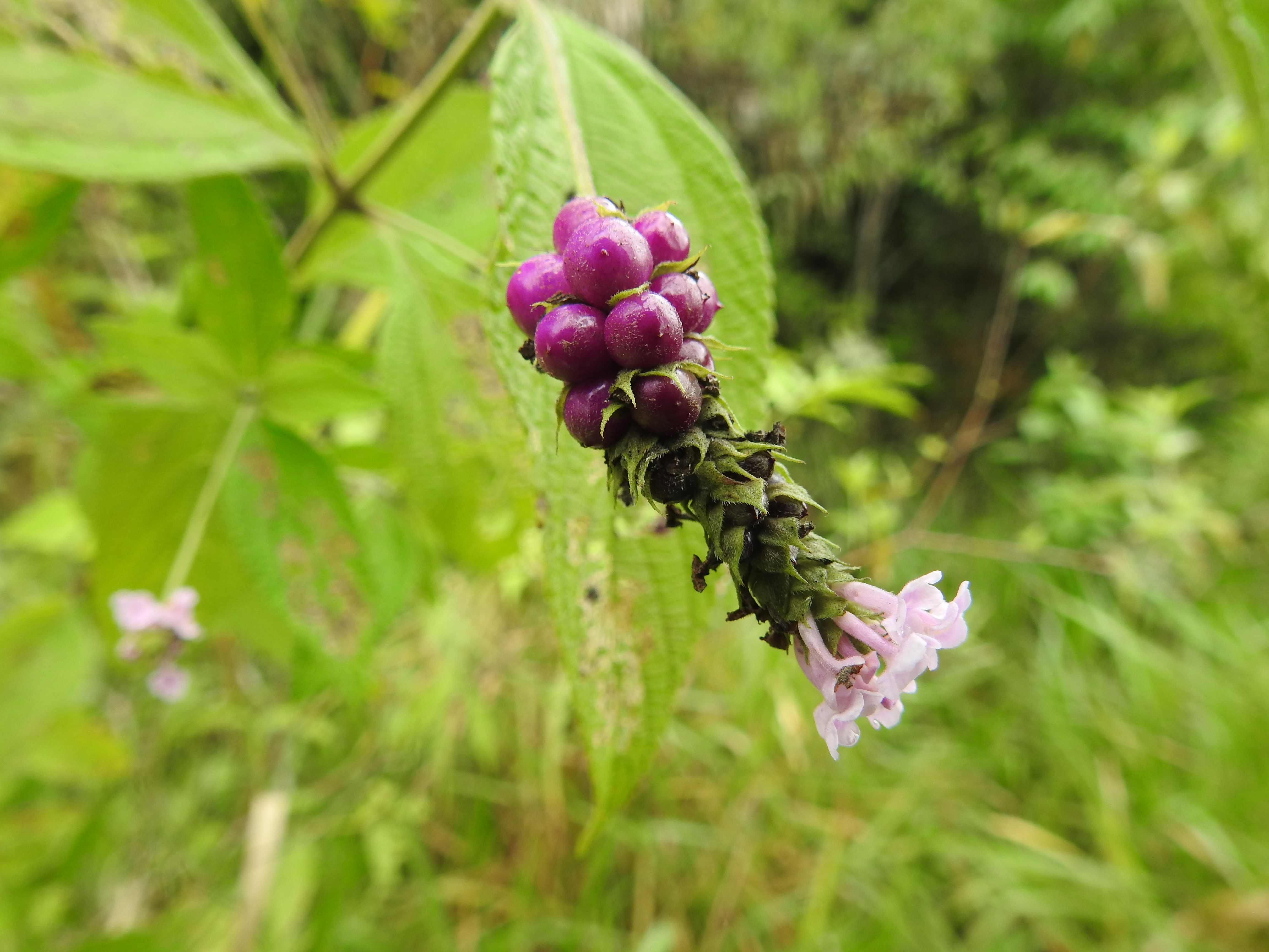 Flores y semillas de Lantana trifolia en el Jardín Botánico de La Macarena